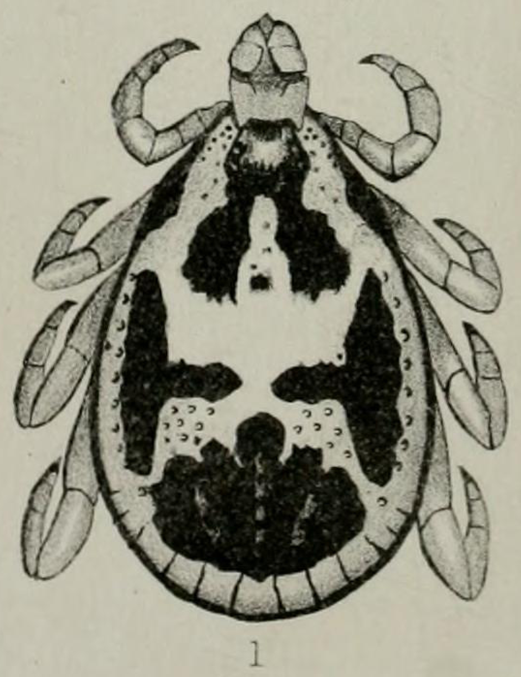 Dorsal view of male Rhipicephalus pulchellus. Note Pocock called this species Rhipicephalus marmoreus. Specimen collected May 1895 in "Bularli in West Somiland".